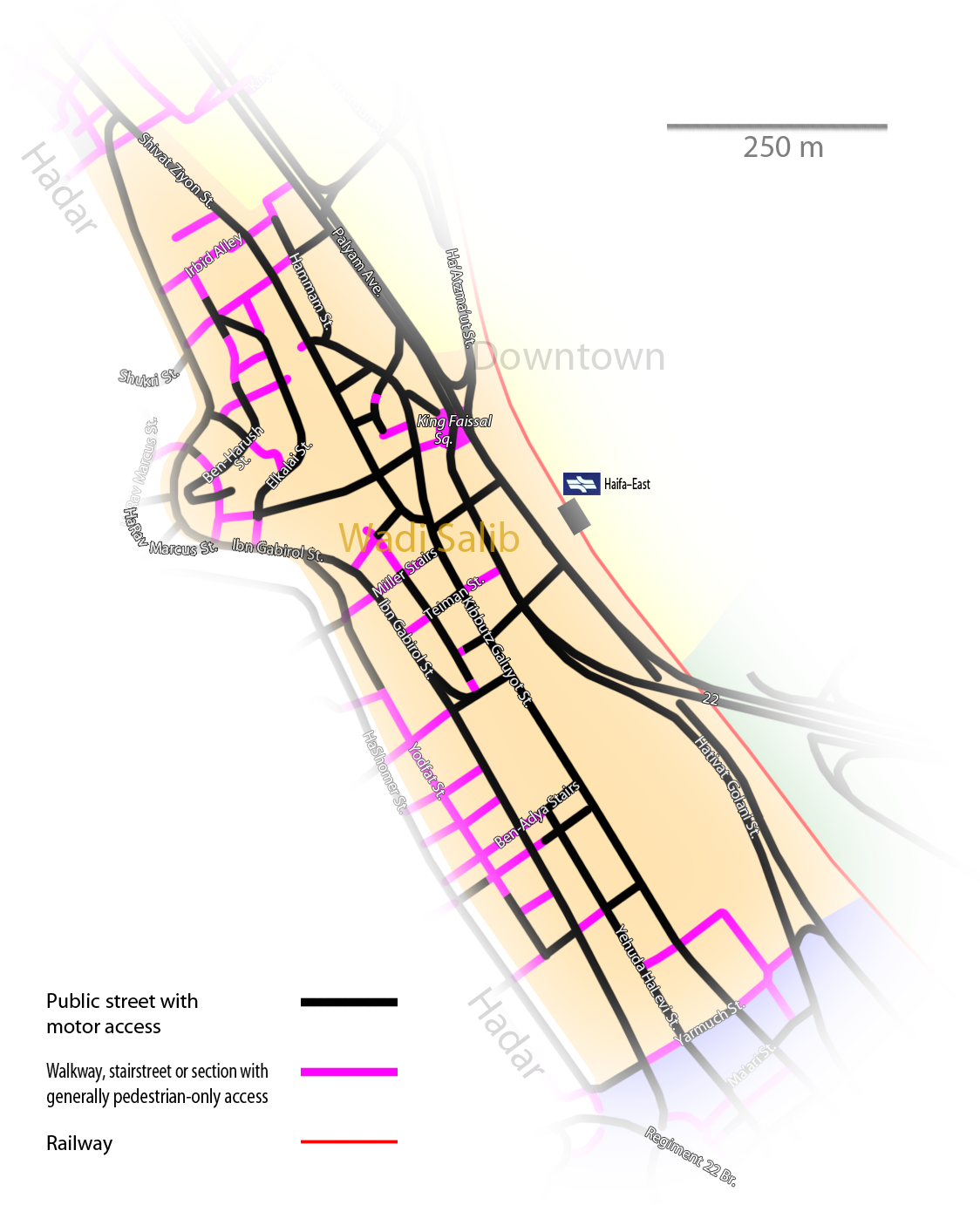 Central Haifa zone cut: Wadi Salib.